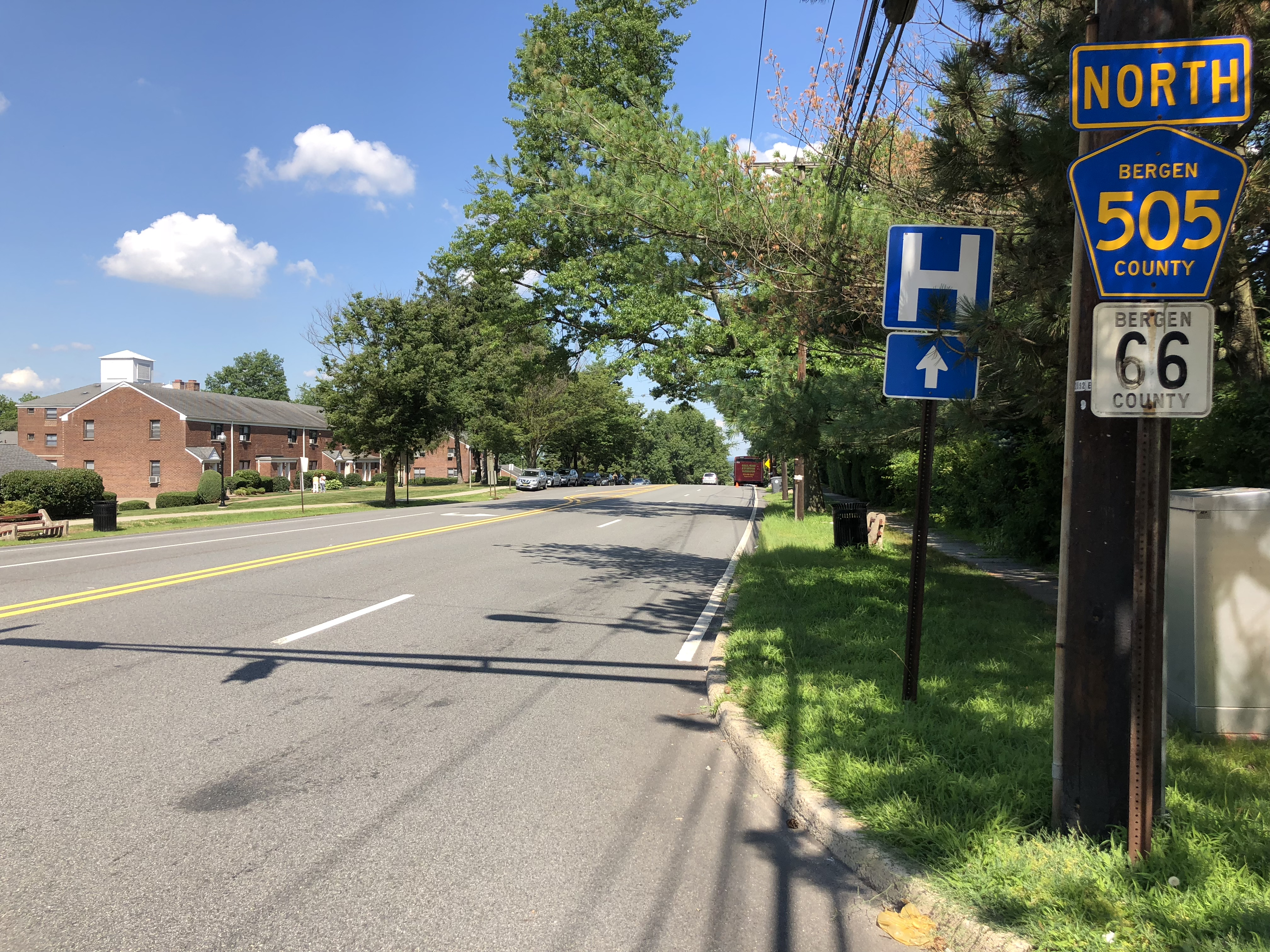 View north along Bergen County Route 505 and Bergen County Route 66 (Palisade Avenue) at Jones Road in Englewood, Bergen County, New Jersey